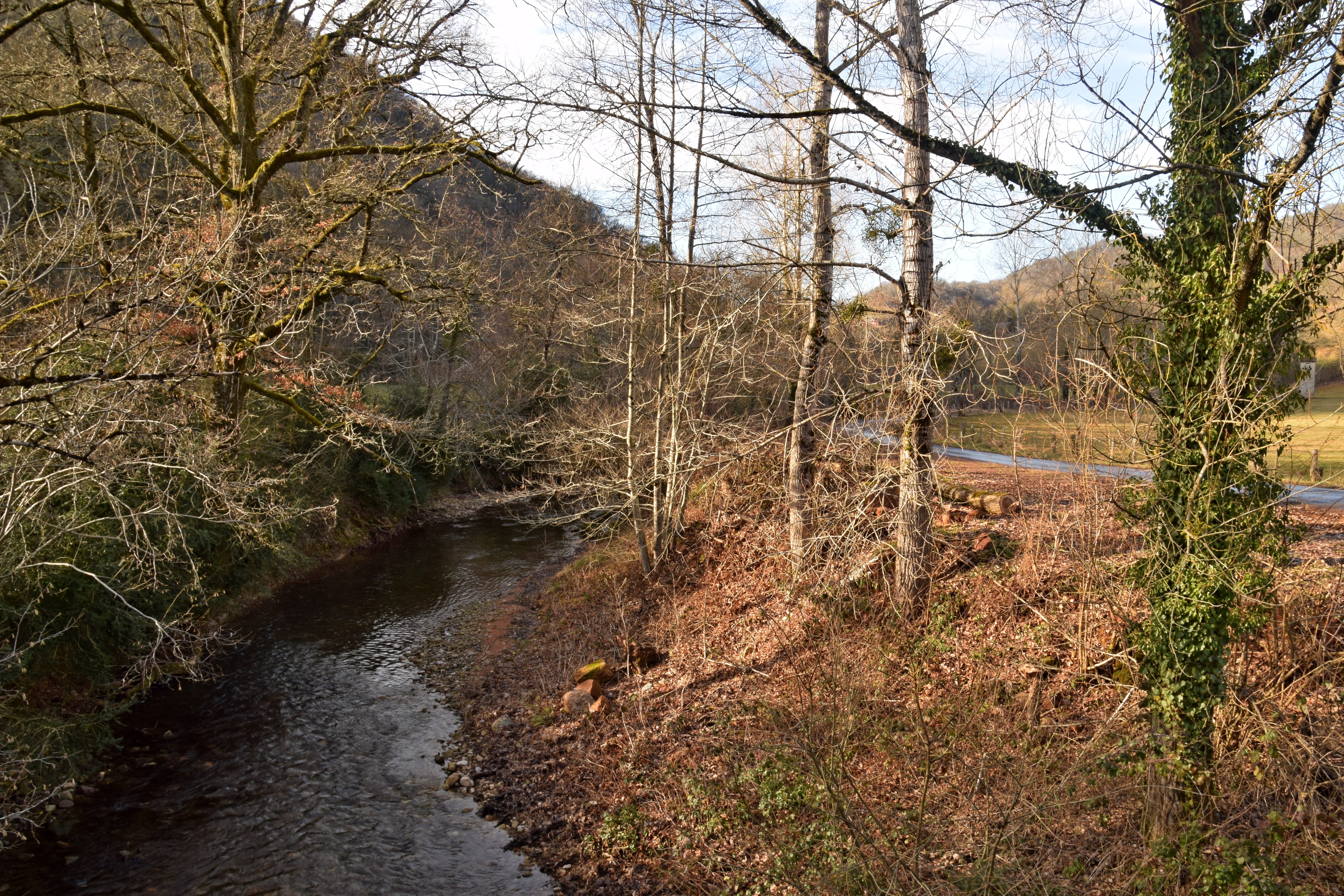 Dourdou River in Rodelle, Aveyron, France